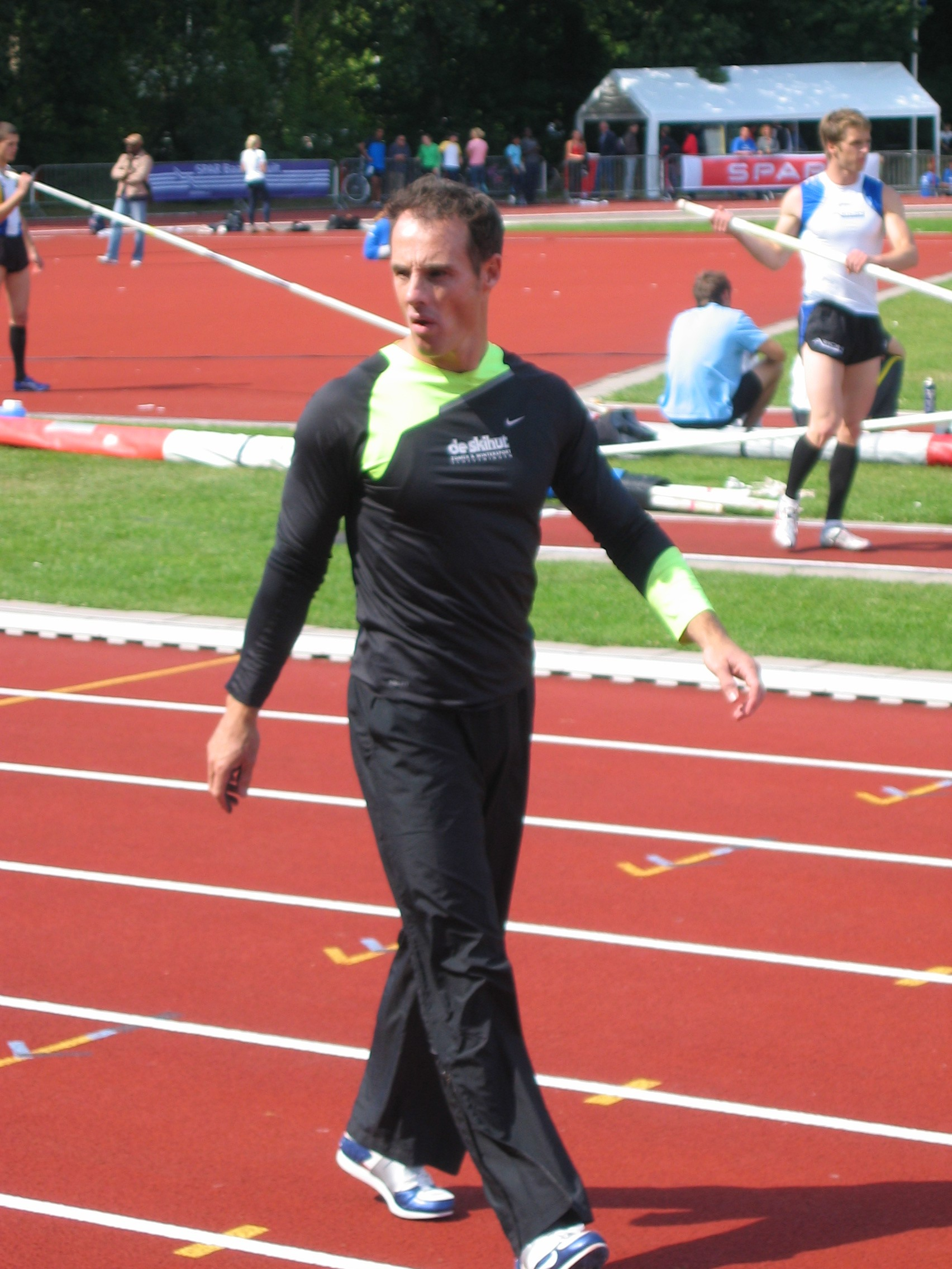 Christian Tamminga at the Gouden Spike Meeting '08 in Leiden, The Netherlands